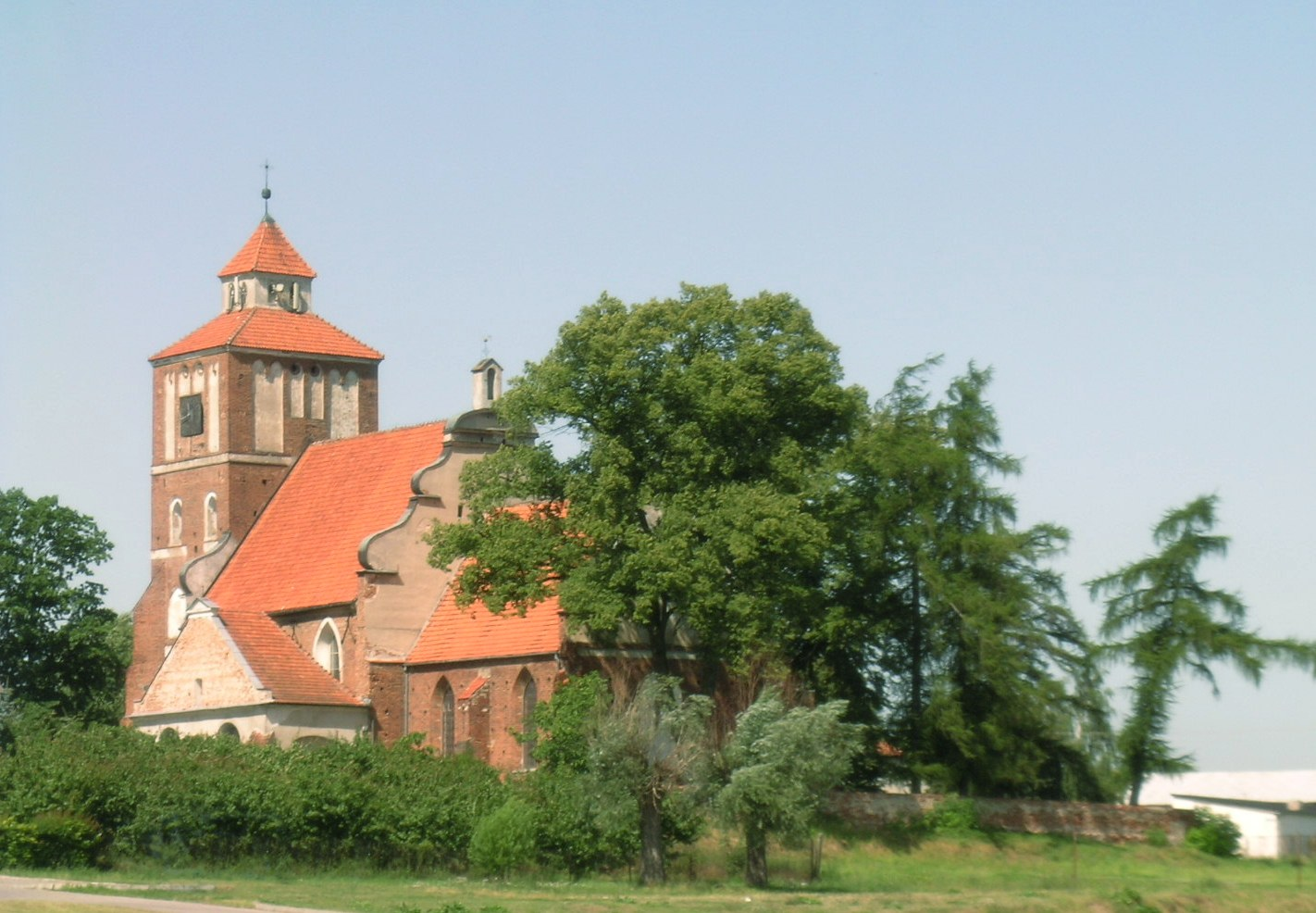 Nieszawa, Poland, Church of St. Hedwig of Andechs)